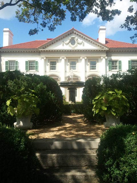 Side view of the Hills and Dales Estate, part of the Vernon Road Historic District